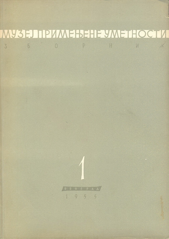 Cover of Zbornik (old series), first number from 1955, Museum of Applied Art, Belgrade, Serbia